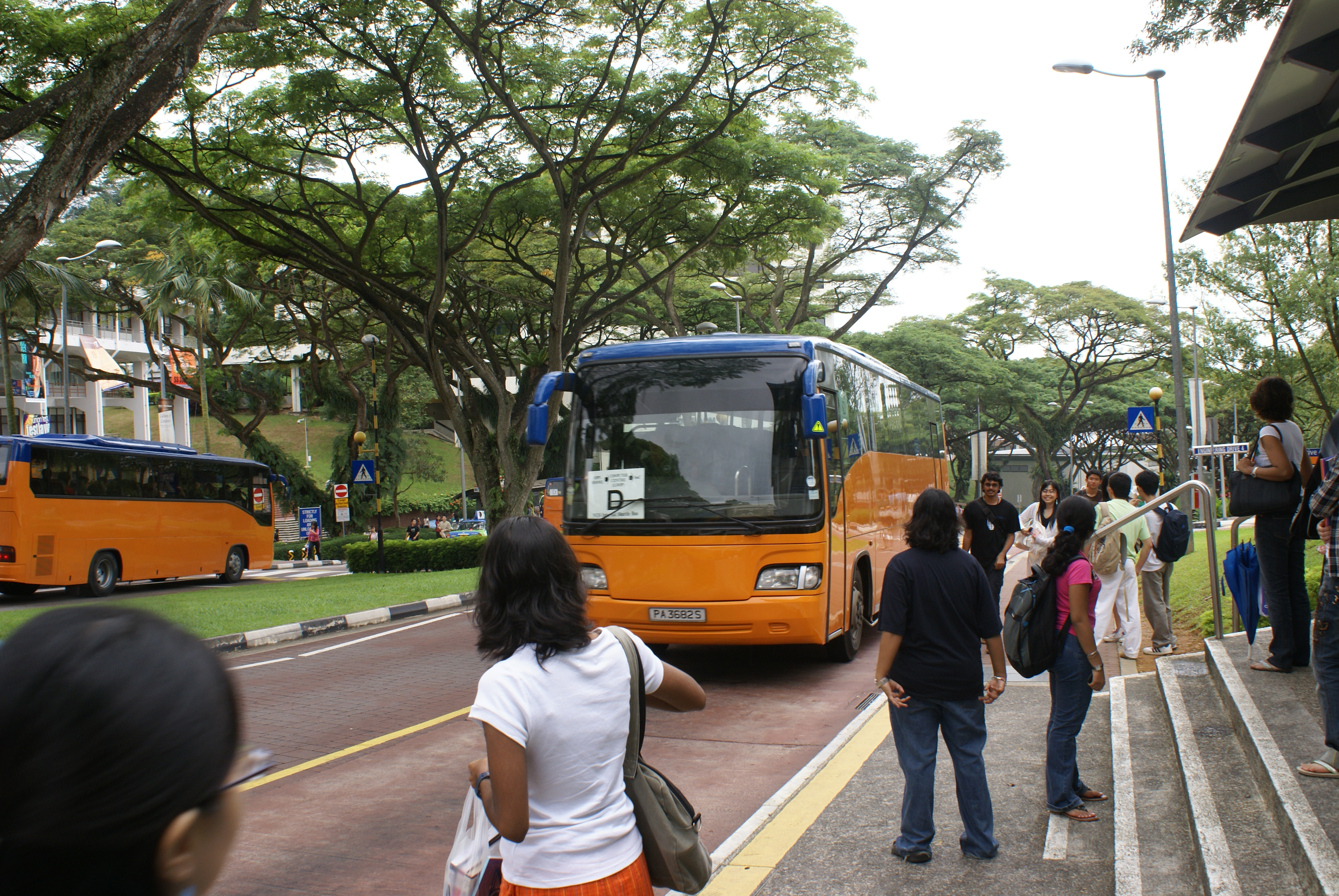 A campus shuttle bus arriving at the bus stop near the Forum along Kent Ridge Crescent, National University of Singapore.